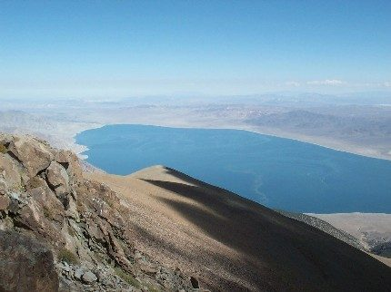 Walker Lake — and Walker Lake National Recreation Area (BLM). In Mineral County, western Nevada.